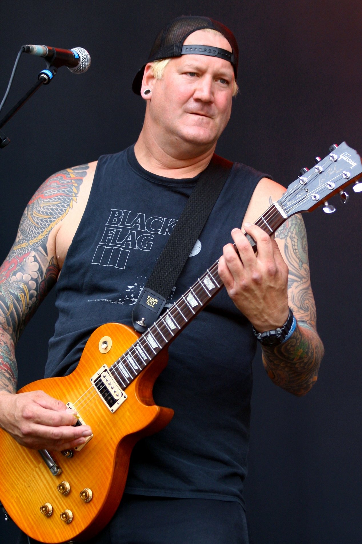 Chris Flippin, guitarist of Lagwagon, Taubertal Festival 2014. Festivalsommer This photo was created with the support of donations to Wikimedia Deutschland in the context of the CPB project "Festival Summer".